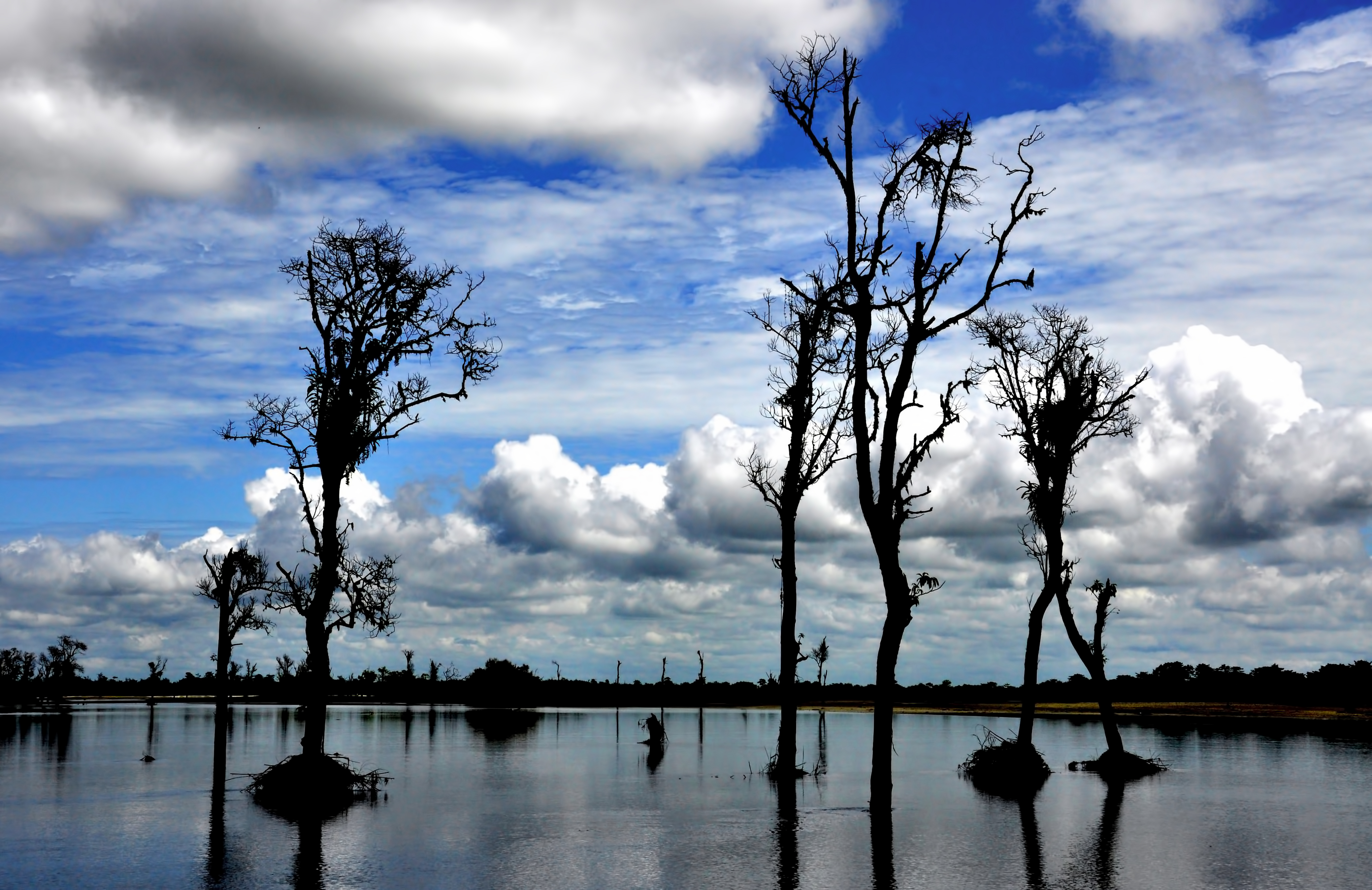 This is a image captured in Dibru Saikhuwa National Park.